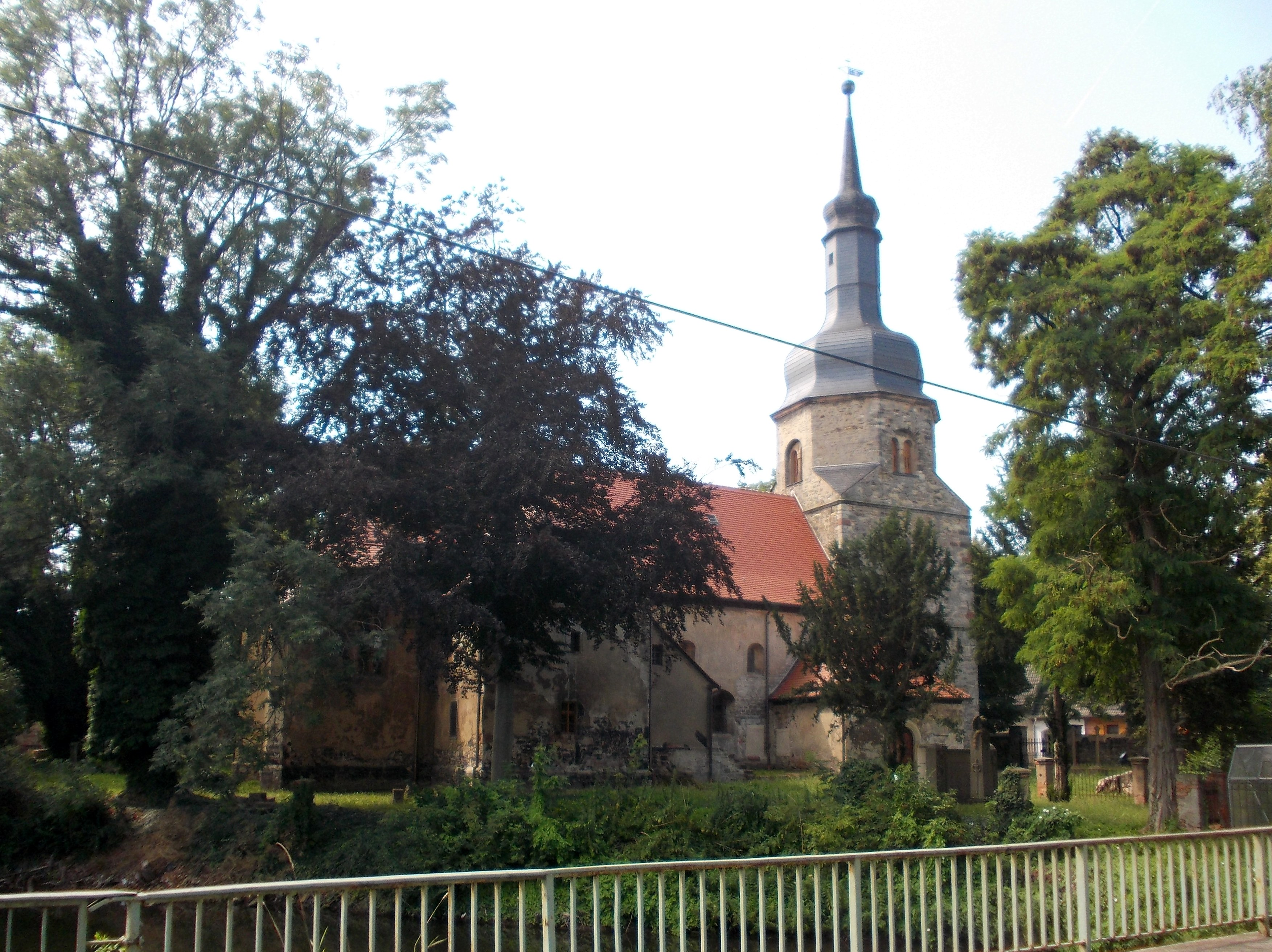 Holleben church (Teutschenthal, district: Saalekreis, Saxony-Anhalt)